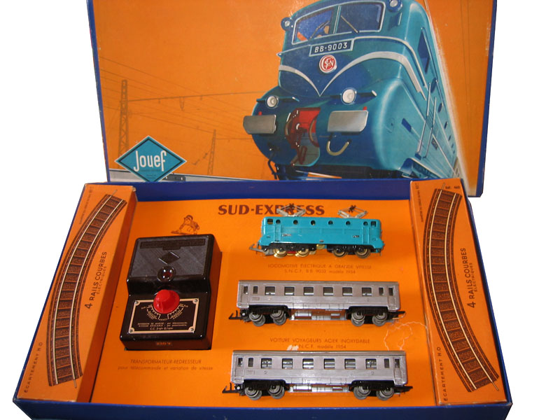 The first Jouef electric train in HO scale - 1955 Personal picture